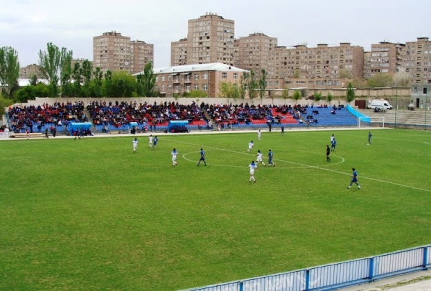 Banants vs Pyunik (0-1), matchday 4 fixture of the 2008 Armenian Premier League season (19 April 2008), at Banants Stadium, Yerevan.